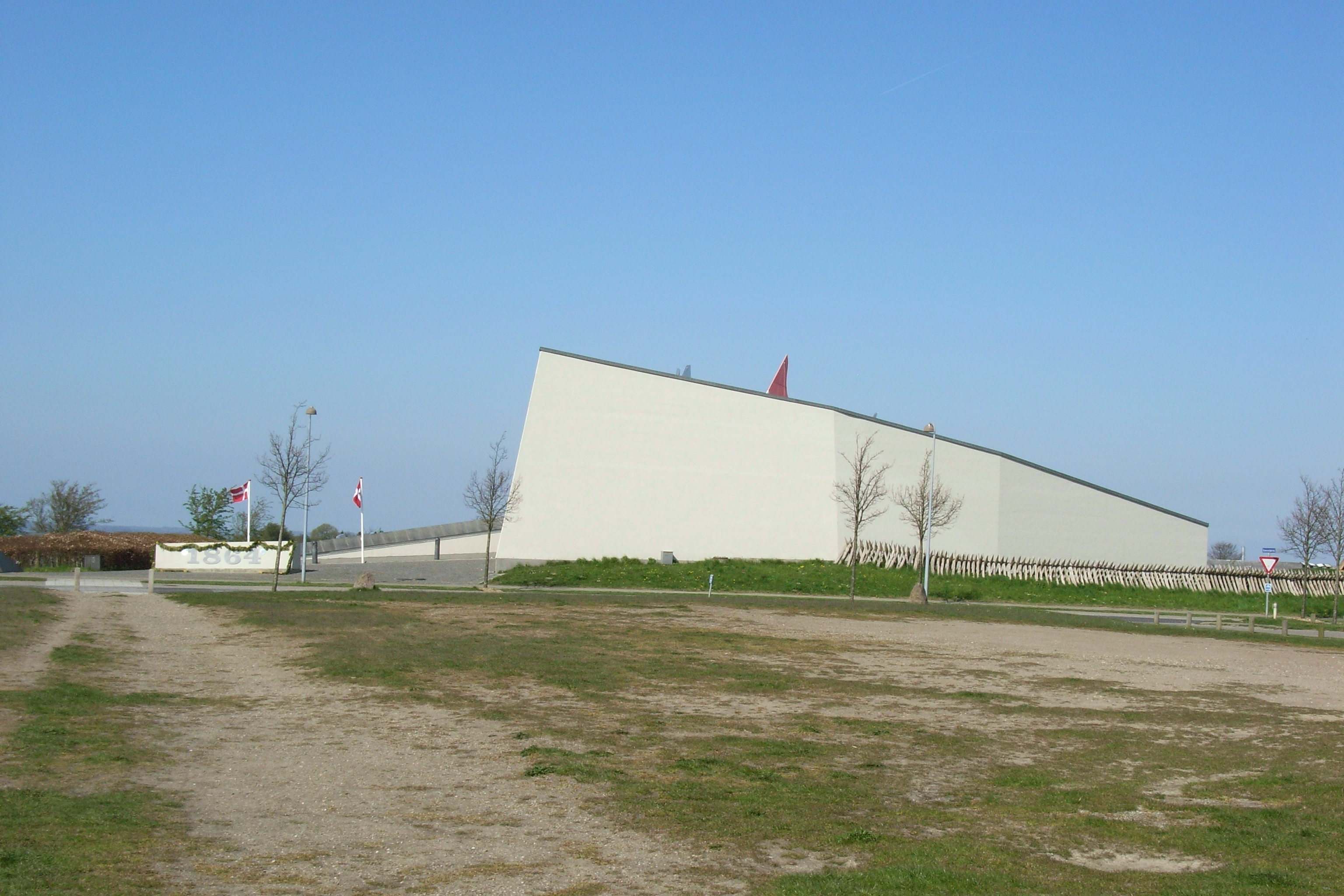 The bulding of the Historiecenter Dybbøl Banke, a museum near the city of Sønderborg in Denmark which documents the history of the Second Schleswig War (1864) and the Battle of Dybbøl (April 18, 1864)